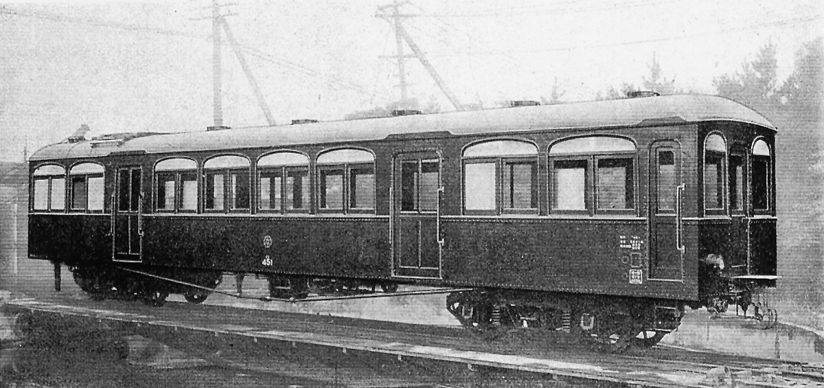 Ise Electric Railway Type Ha 451 EMU No.451